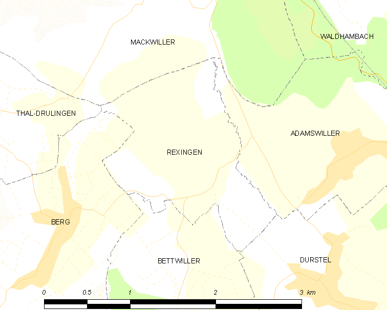 Map of French municipality